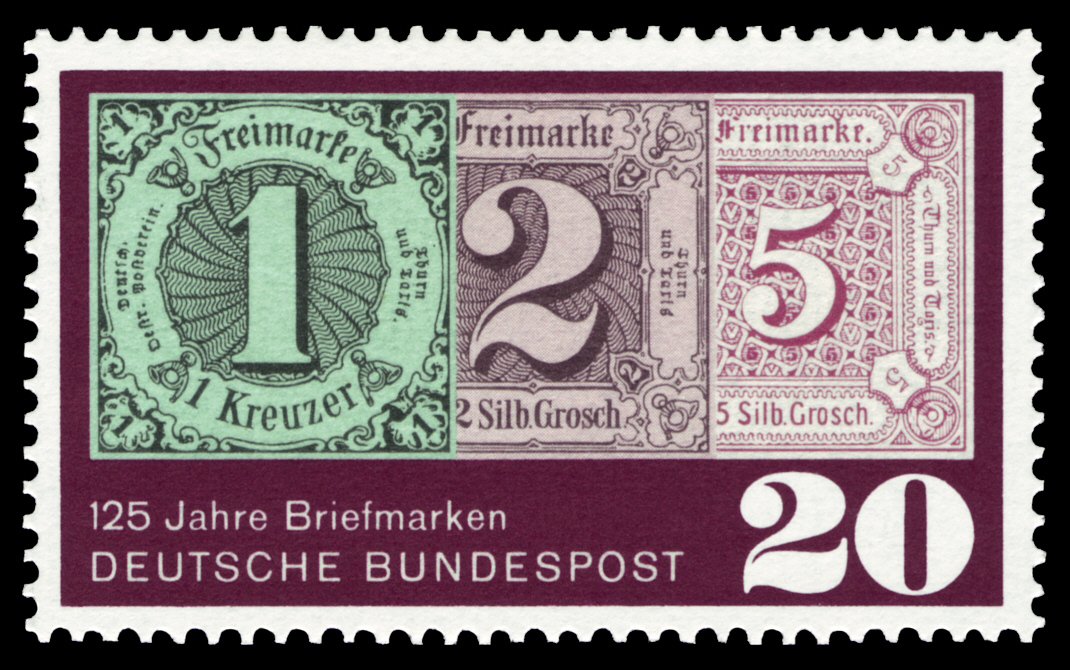 Stamp of Germany (Michel #482), 125th anniversary of the first postage stamp, Penny Black, showing 3 stamps of Thurn und Taxis post (Michel #5, 7 and 18).